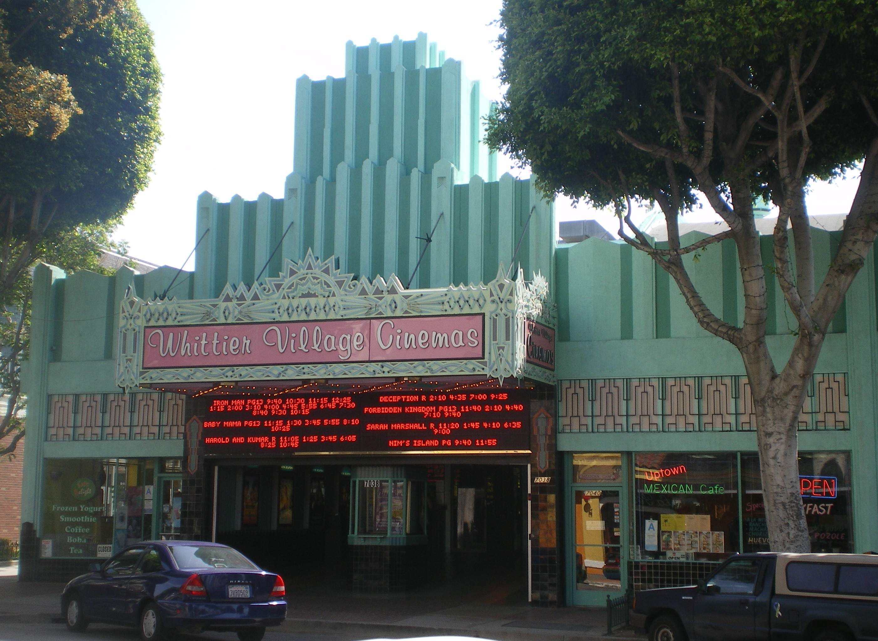 Whittier Village Cinemas, 7038 Greenleaf Avenue, Whittier, California